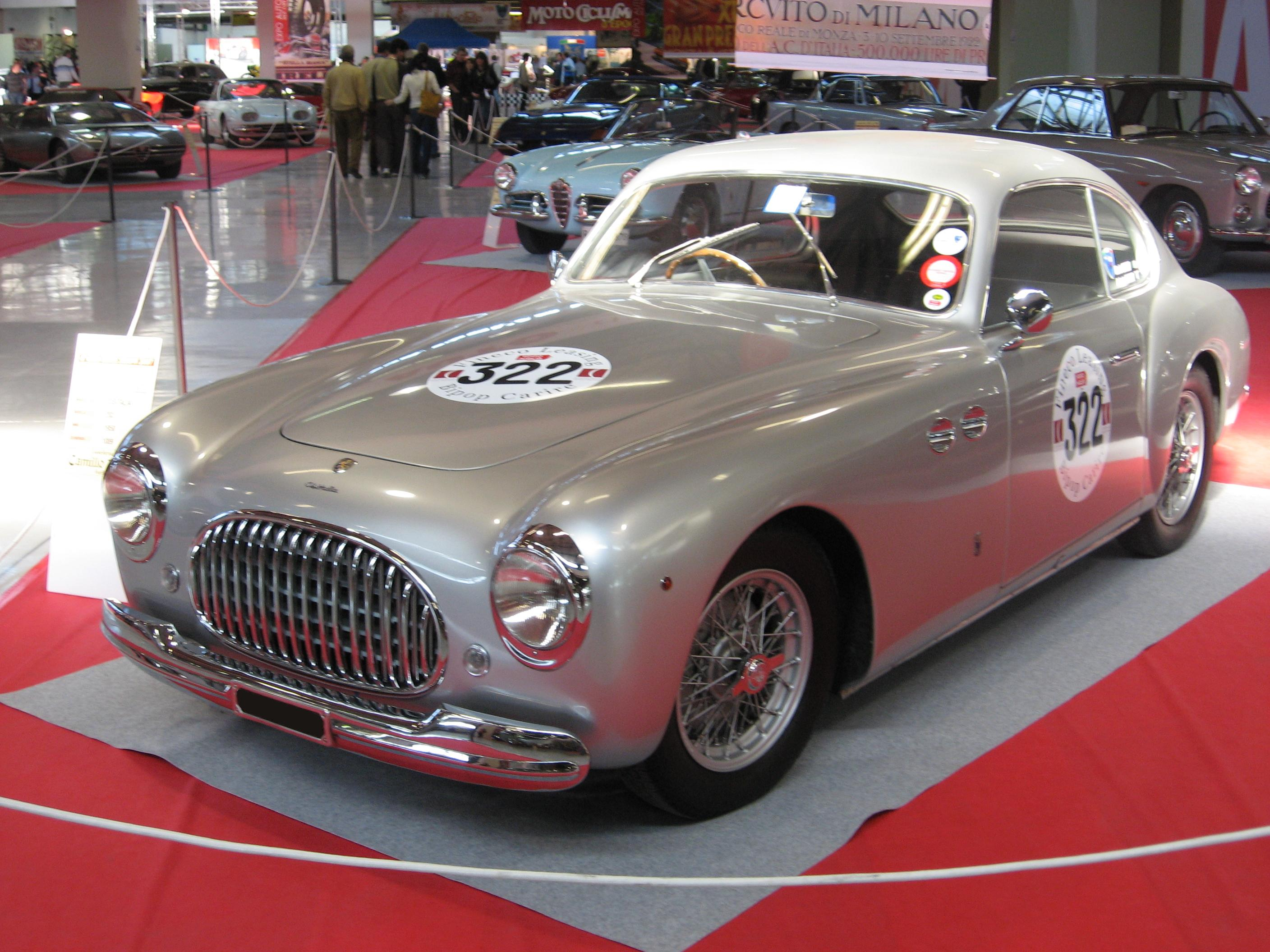 This photo shows a Cistialia 202 SC Pininfarina Coupé, 1951 Author: Luc106 Date: 18th march 2007 Place: Forlì (Italy) Event: Old Time Show I release all rights in the public domain.